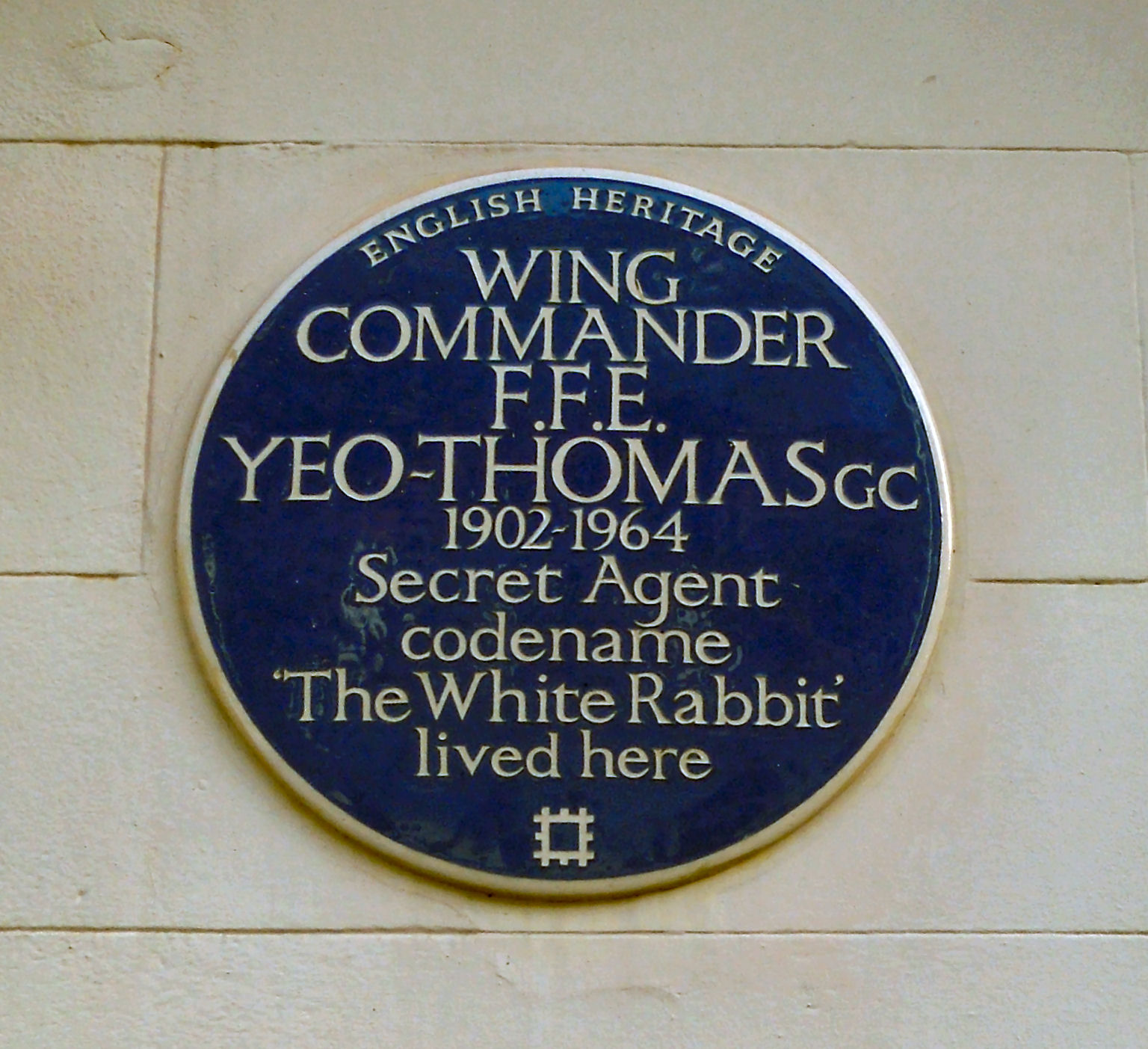 Blue plaque on the former flat of F. F. E. Yeo-Thomas in Guilford Street in London This image represents an Open Plaques entry #3696.